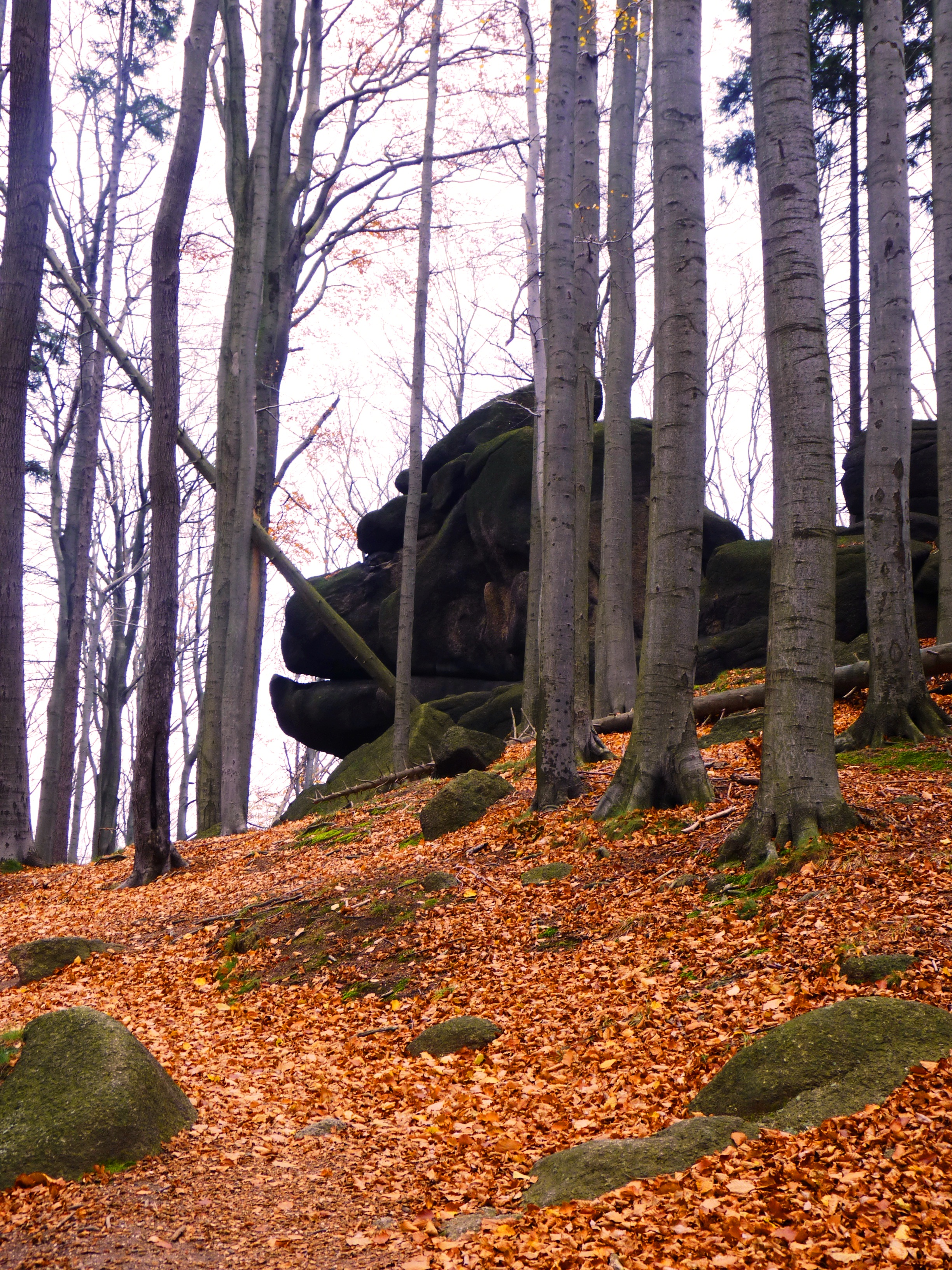 Skalní útvar Gorila